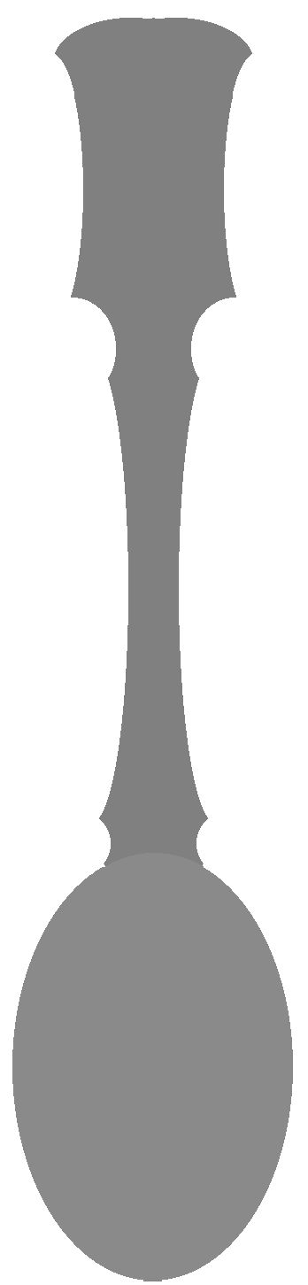 Spoon shape popular around 1750.